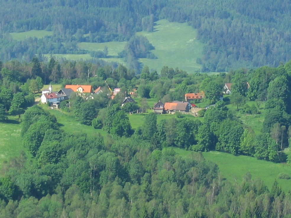 View of Humpolec from the north-east, Klatovy District, Czech Republic